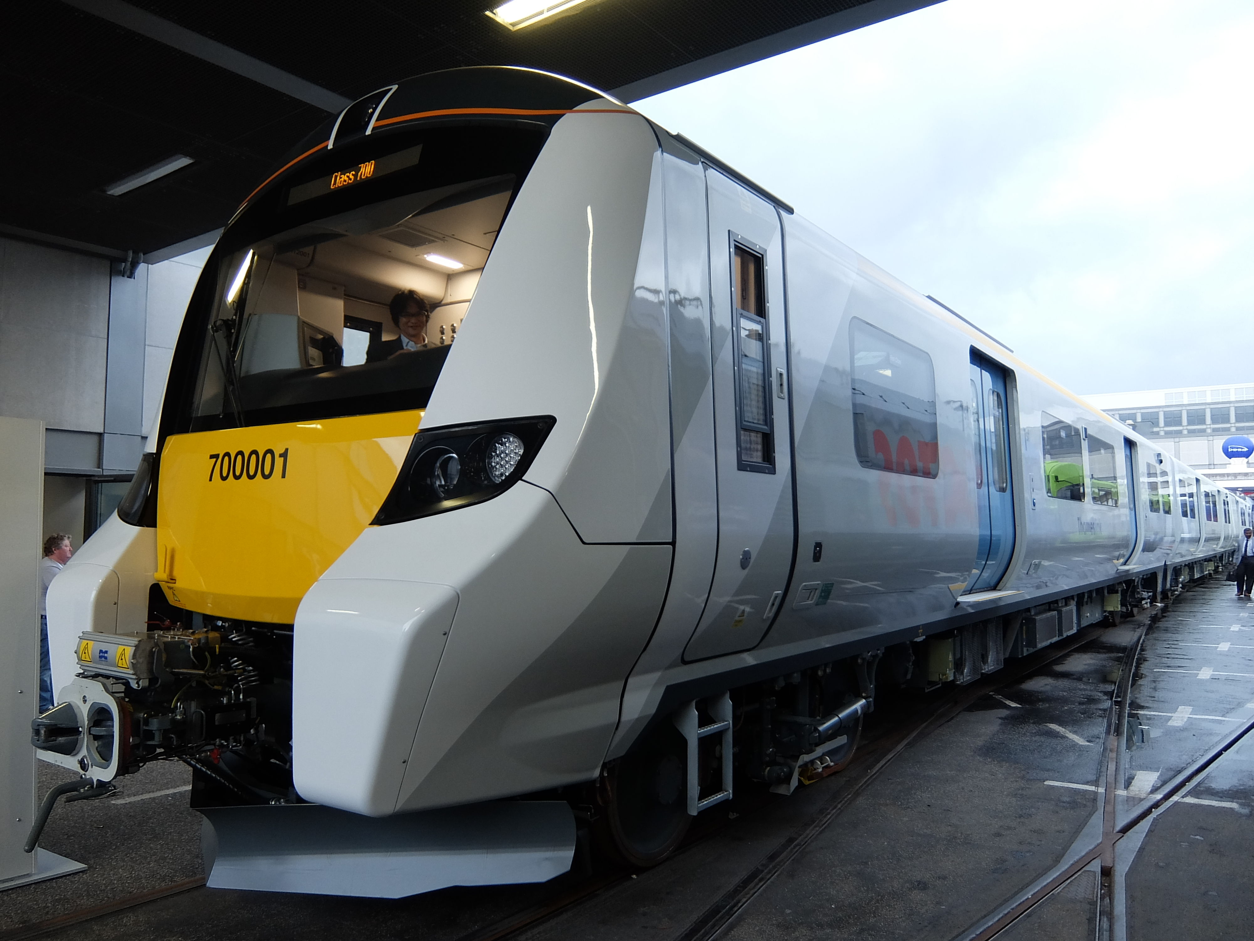 Siemens Desiro City (British Rail Class 700) at Innotrans 2014.